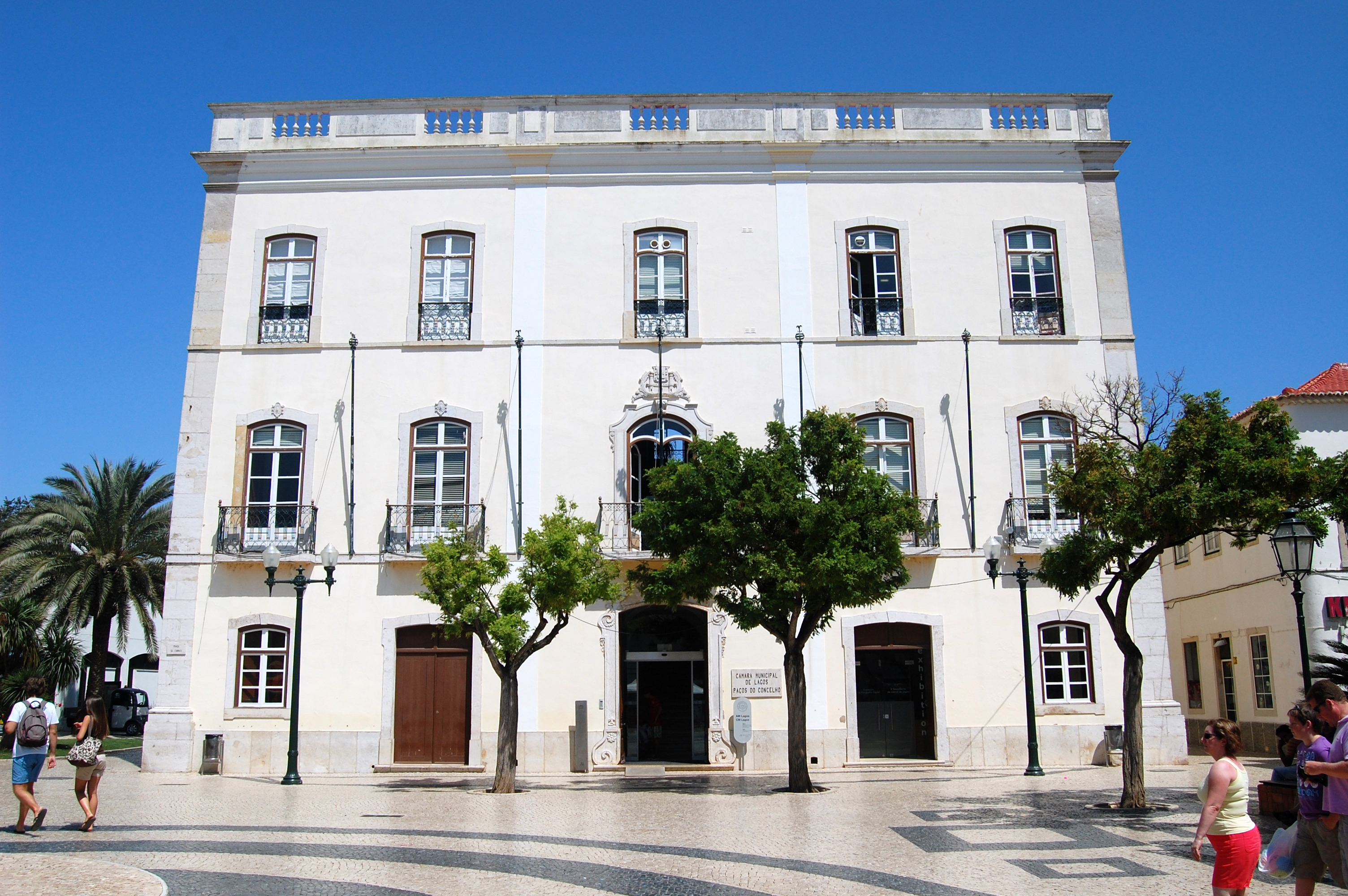 Lagos city hall.